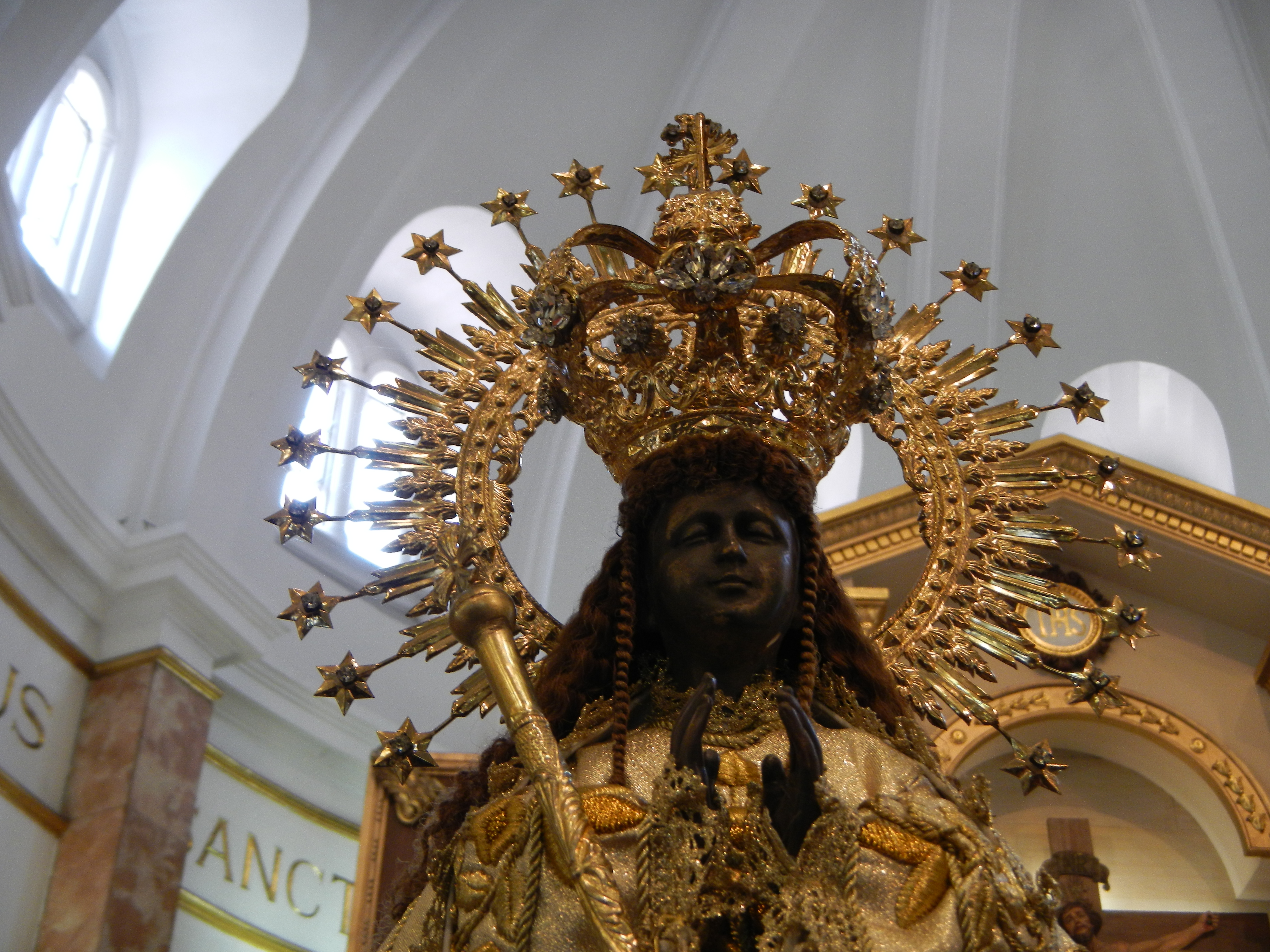 Photos of the First in Philippine History, landmark, historical and momentous: National Consecration to the Immaculate Heart of Mary, 8 June 2013 Consecration to the Immaculate Heart of Mary 8 June 2013 [1] Cardinal Tagle: No corruption in a country entrusted to MaryCardinal Tagle: No corruption in a country entrusted to MaryTagle leads prayer vs corruption, lifts PH to Mary’s heart Saturday, June 8th, 2013 [2] CBCP Circular Letter No. 01 – s. 2013: Celebration of the National Consecration to the Immaculate Heart of Mary on June 8, 2013.[3] + JOSE S. PALMA, D.D.[4] - "Bayang Sumisinta Kay Maria" ‘Act of Consecration to Mary,’ Marian recollection on June 8 June 2nd, 2013 Observance: Consecration of the Philippines to the Immaculate Heart of Mary Consecration to the Immaculate Heart of Mary June 8, 2013 [5] [6] THE Act of Consecration to the Immaculate Heart of Mary will be held in all the cathedrals, shrines, and parishes all over the country at 10 a.m June 8, 20123. Tagle, may panawagan sa mga Pilipino The National Consecration of the Philippines and the Catholic Faithful to the Immaculate Heart of Mary as "Isang Bayang Sumisinta kay Maria" (Pueblo Amante de Maria) took place on June 8, 2013, the Feast of the Immaculate Heart of Mary. It was led by Luis Antonio Tagle[7] (Latin: Aloysius Antonius Tagle